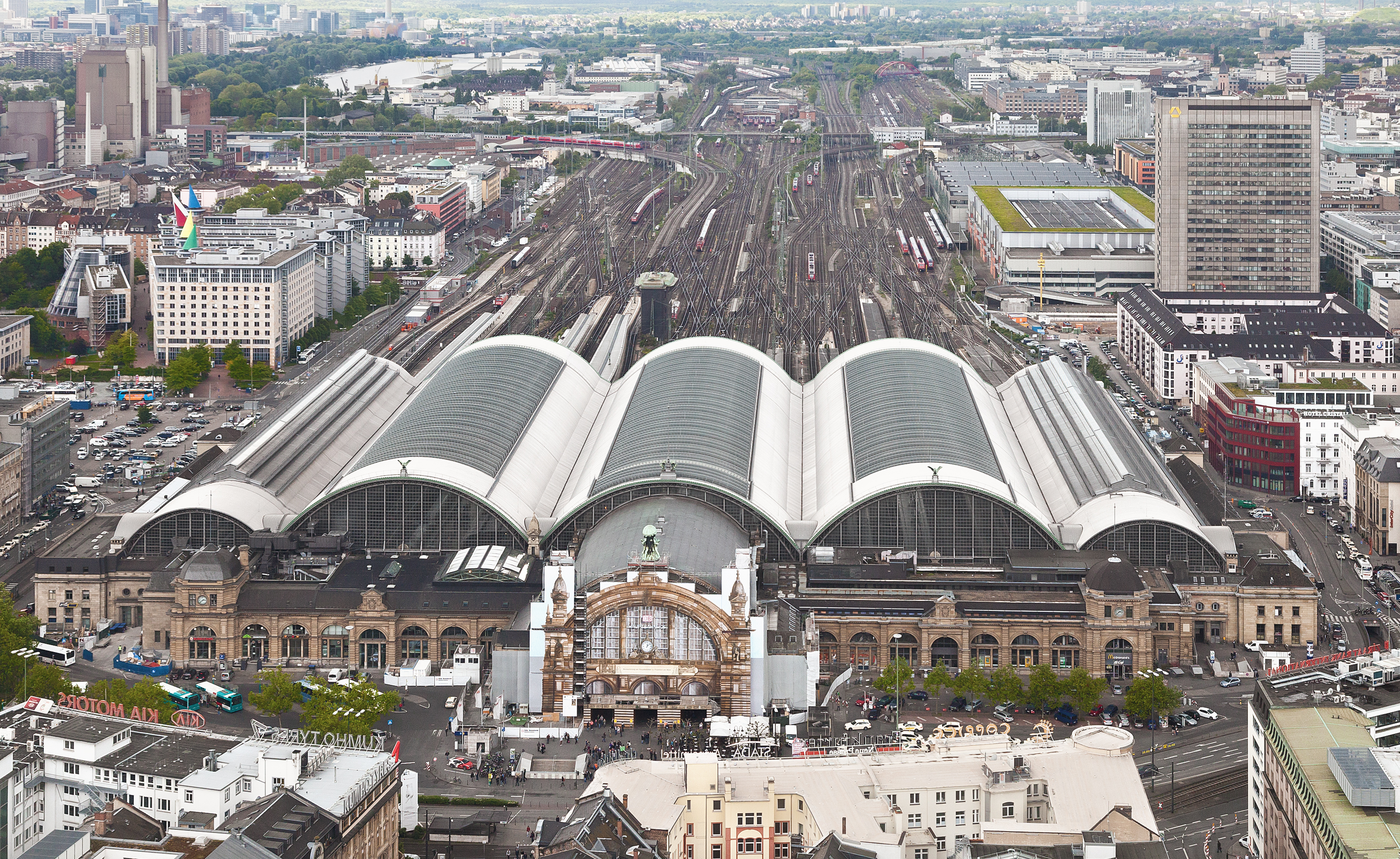 Frankfurt Central Station